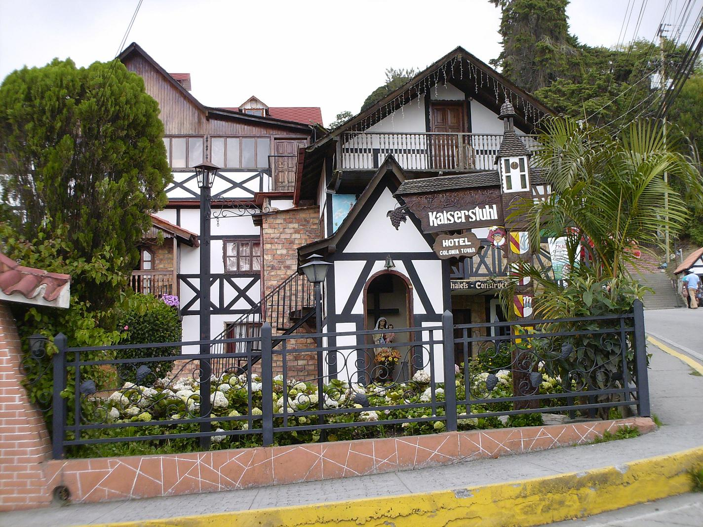 Chalet in Colonia Tovar, Venezuela